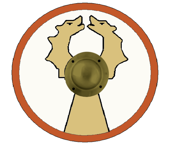 Shield pattern o.t. Exculcatores iuniores Britanniciani, listed as one of auxilia palatina units in the Magister Peditum's infantry roster.